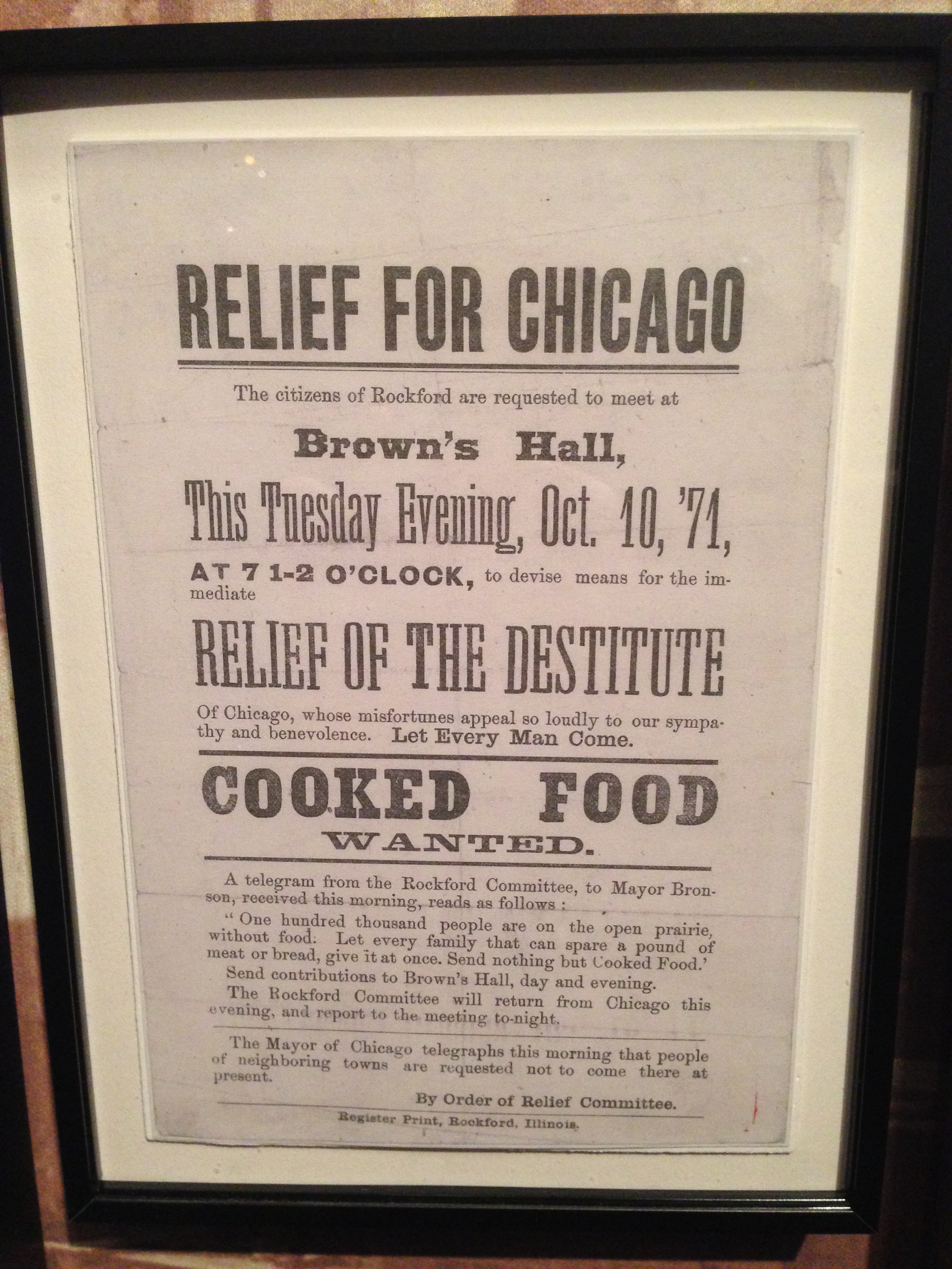 Relief for the destitute, Chicago History Museum